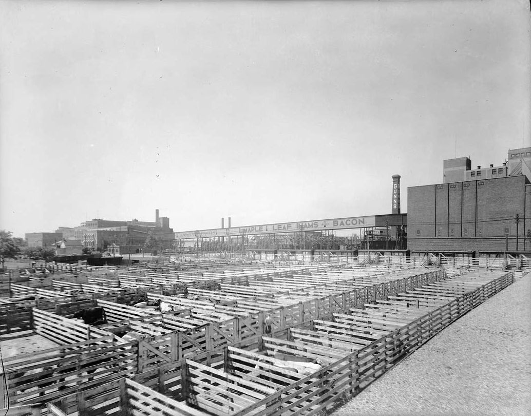 Canada Packers stockyards, located at the south-west corner of Keele Street and St. Clair Avenue West. Toronto, Ontario, Canada.